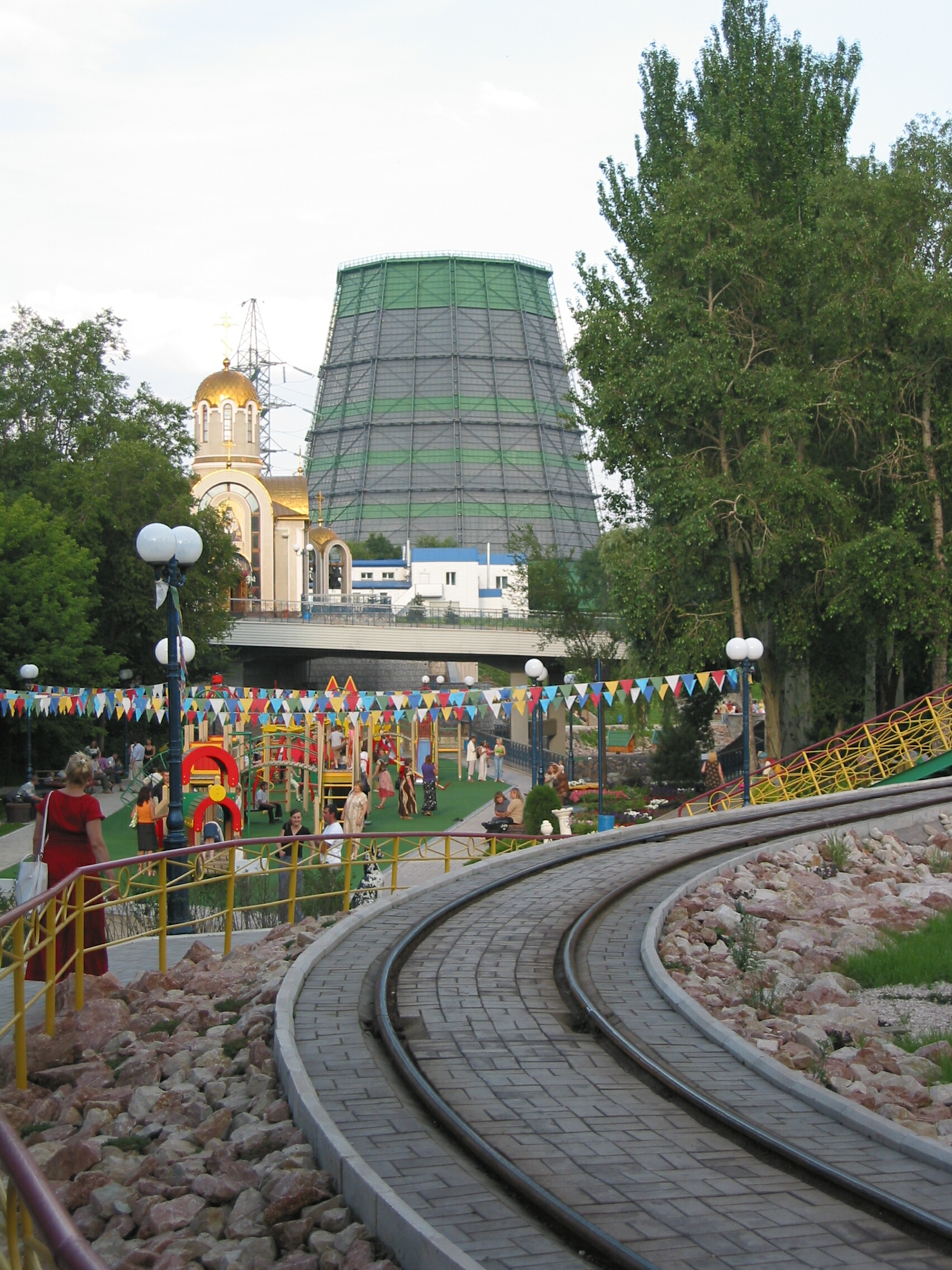 Park in Donetsk metallurgical plant